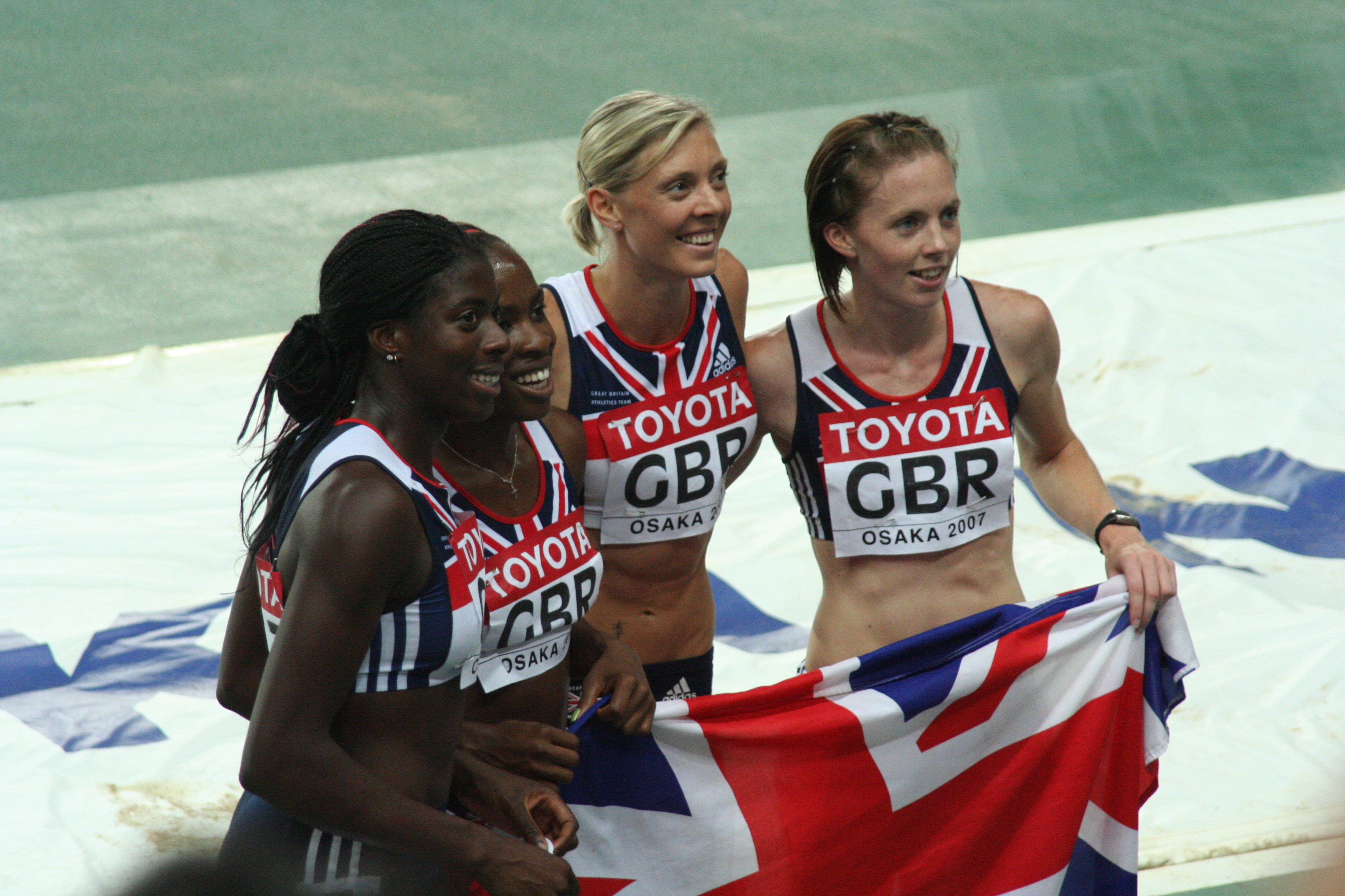 World Athletics Championships 2007 in Osaka - the UK team celebrating their third place in the women's 4*400 metres relay race